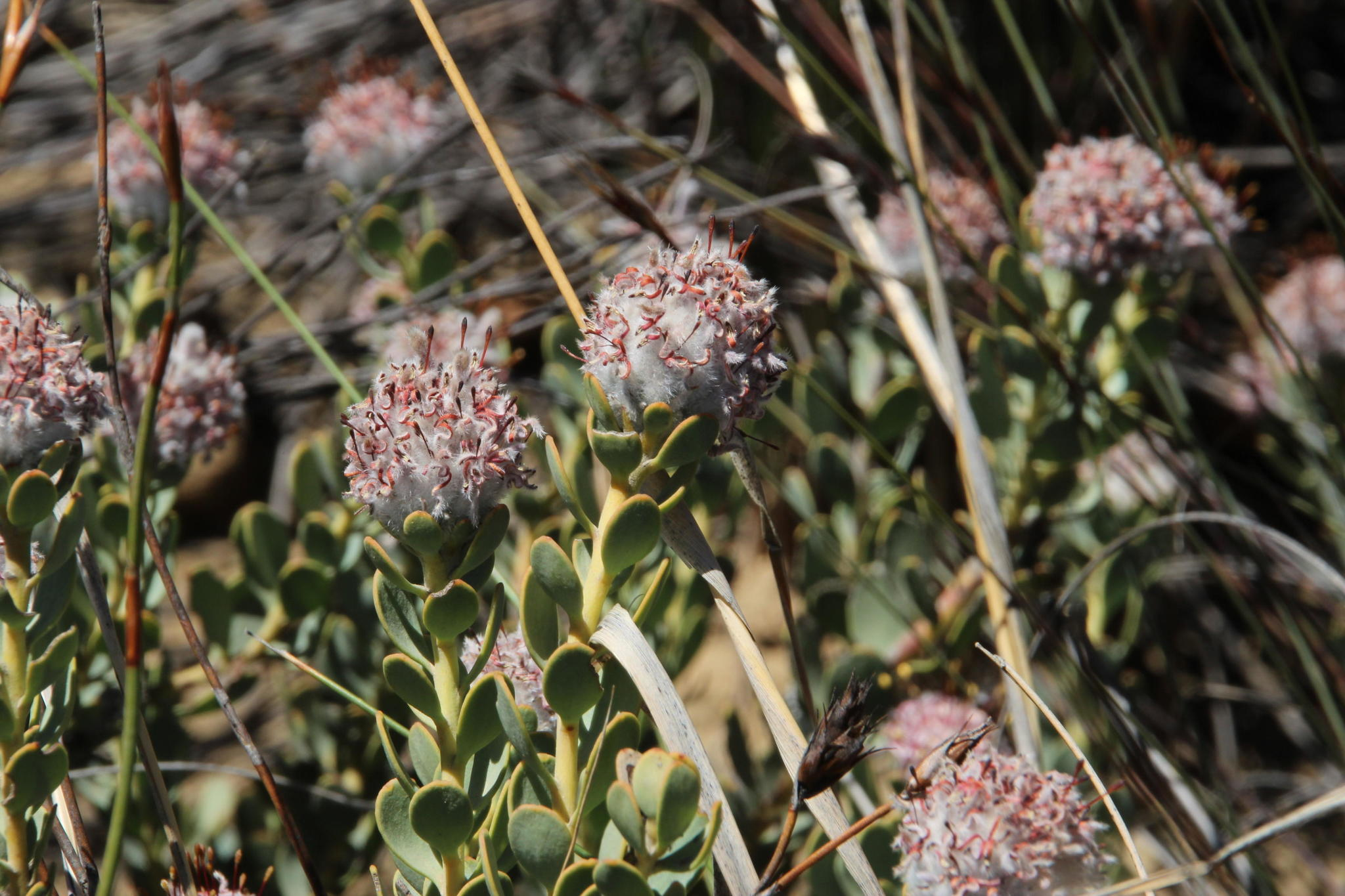 Some flowering stems starting fruit development of the Swartruggens vexator, Vexatorella amoena, photographed by Tony Rebelo on 22 October 2015 at Swartruggens Pass